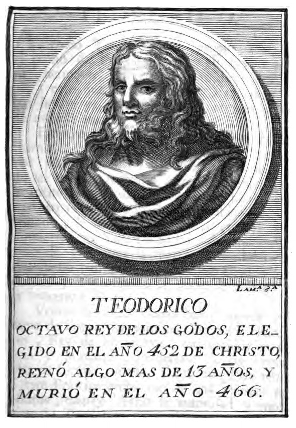 A poster of TEODORICO II, Visigoth king, n° 8 in the chronological order of the book digitalized by Google since the bookshop in the University of Oxford.